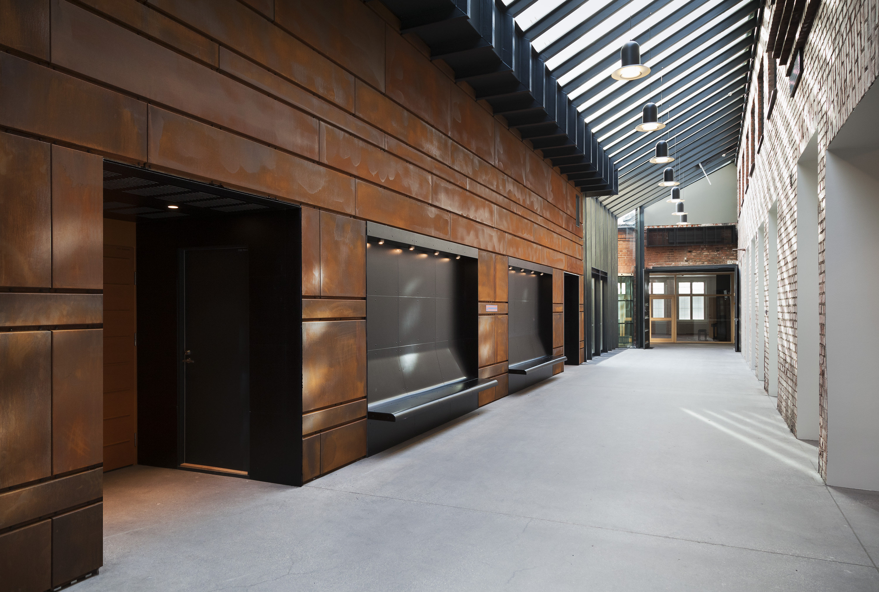 Culture house Korundi lobby